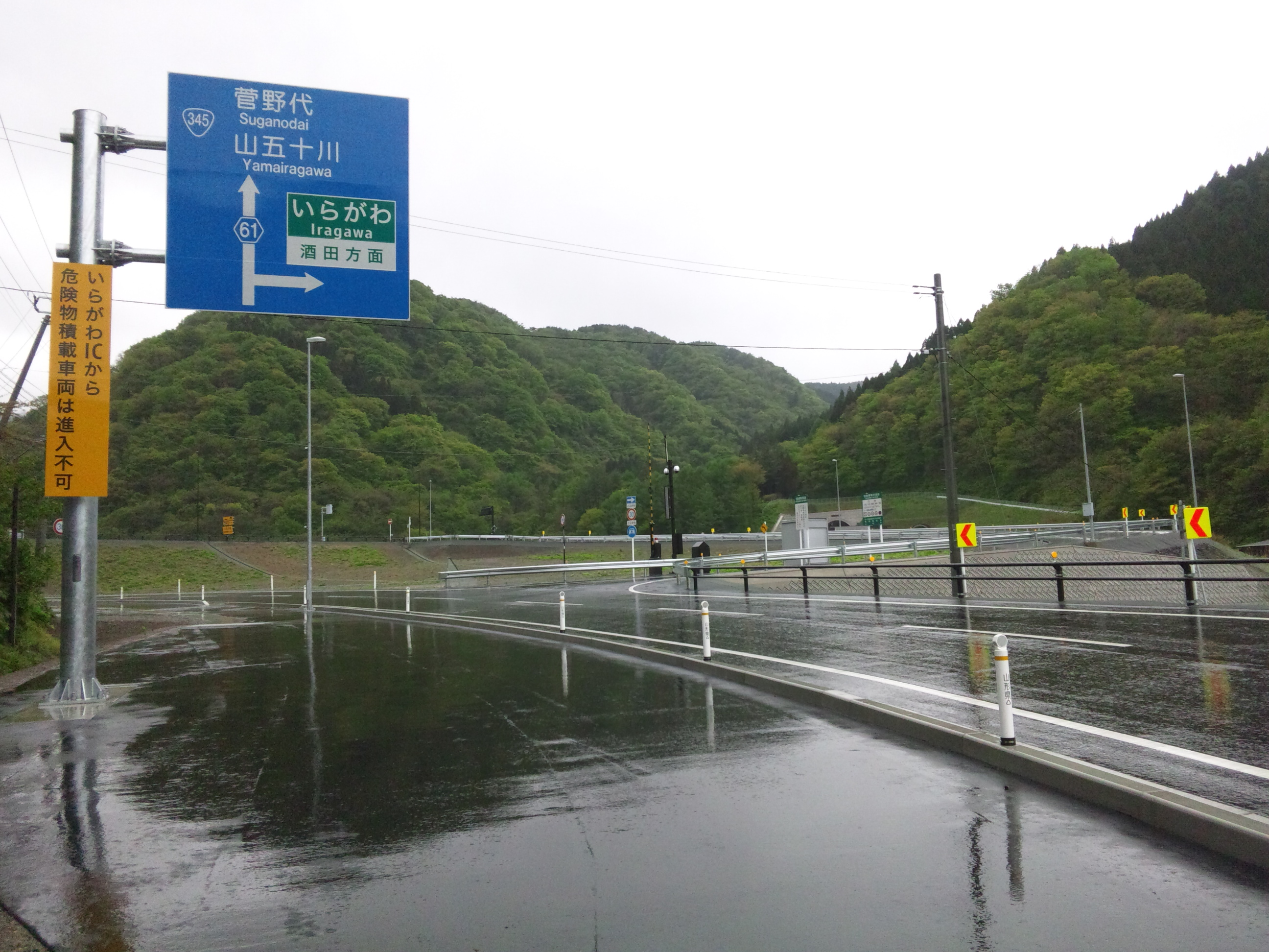 Iragawa Interchange, Nihonkai-Tohoku Expwy, Japan.